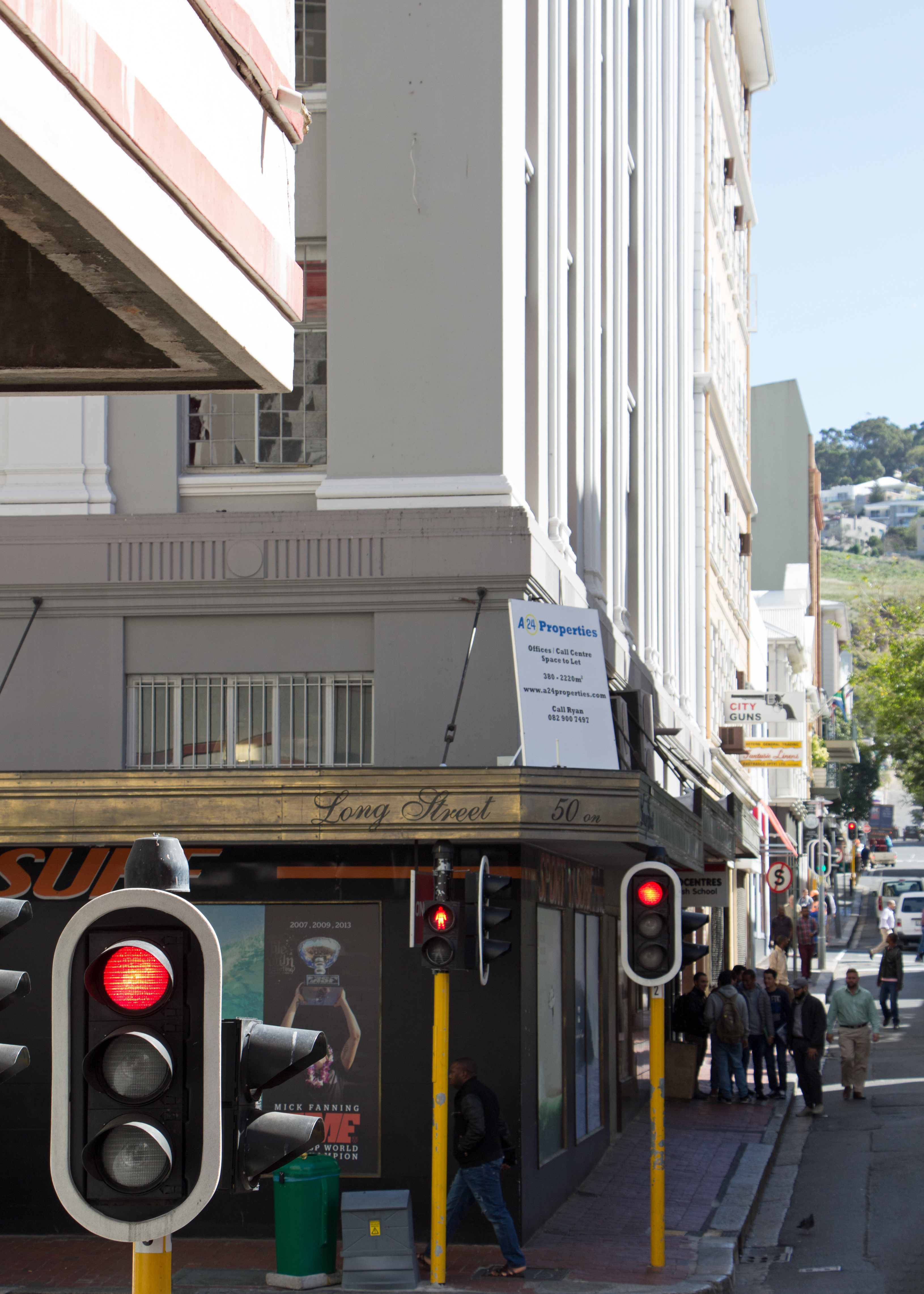 View of Hout Street looking up to the Bo-Kaap from the corner of Long and Hout Streets, Cape Town, South Africa